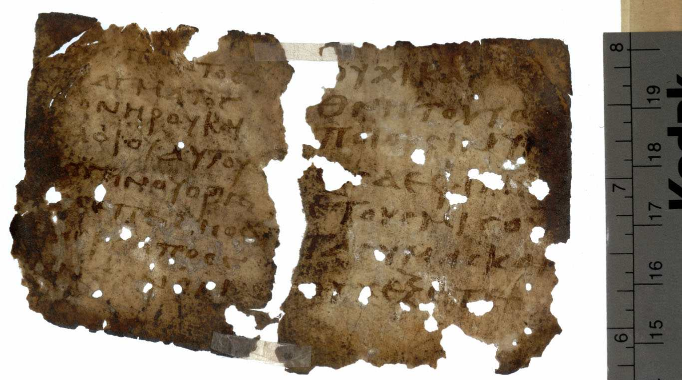 Papyrus Oxyrhynchus 1782 side A, IV cent.